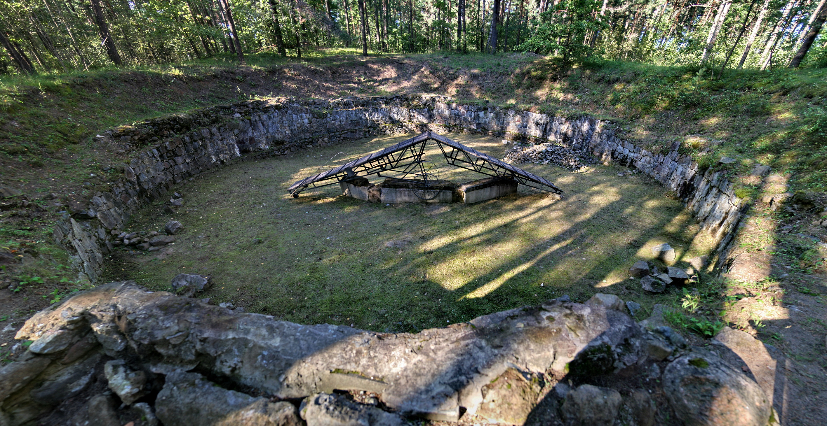 A pit used for cremation of exhumed corpses of Paneriai Massacre victims by prisoners in 1944